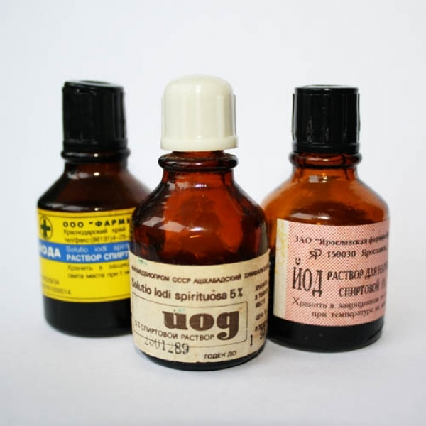 iod, йод